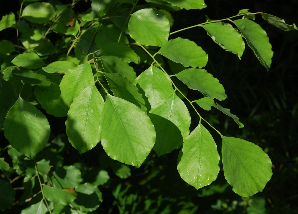 Dalbergia latifolia leaves. Bogor, West Java, Indonesia.